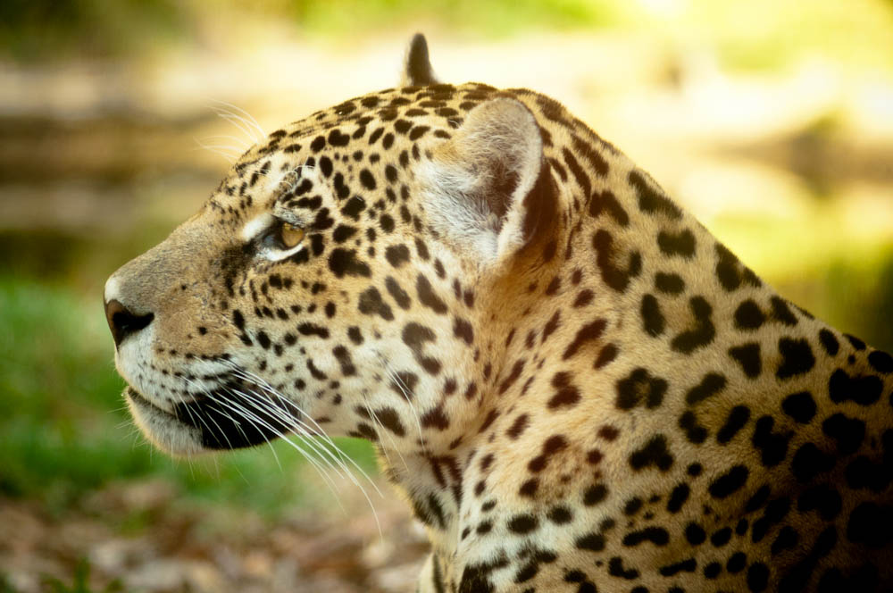 A jaguar at Gramado Zoo, Gramado, Rio Grande do Sul, Brazil.